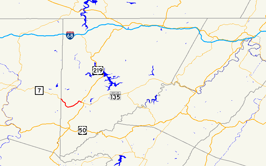 Map of Maryland Route 39